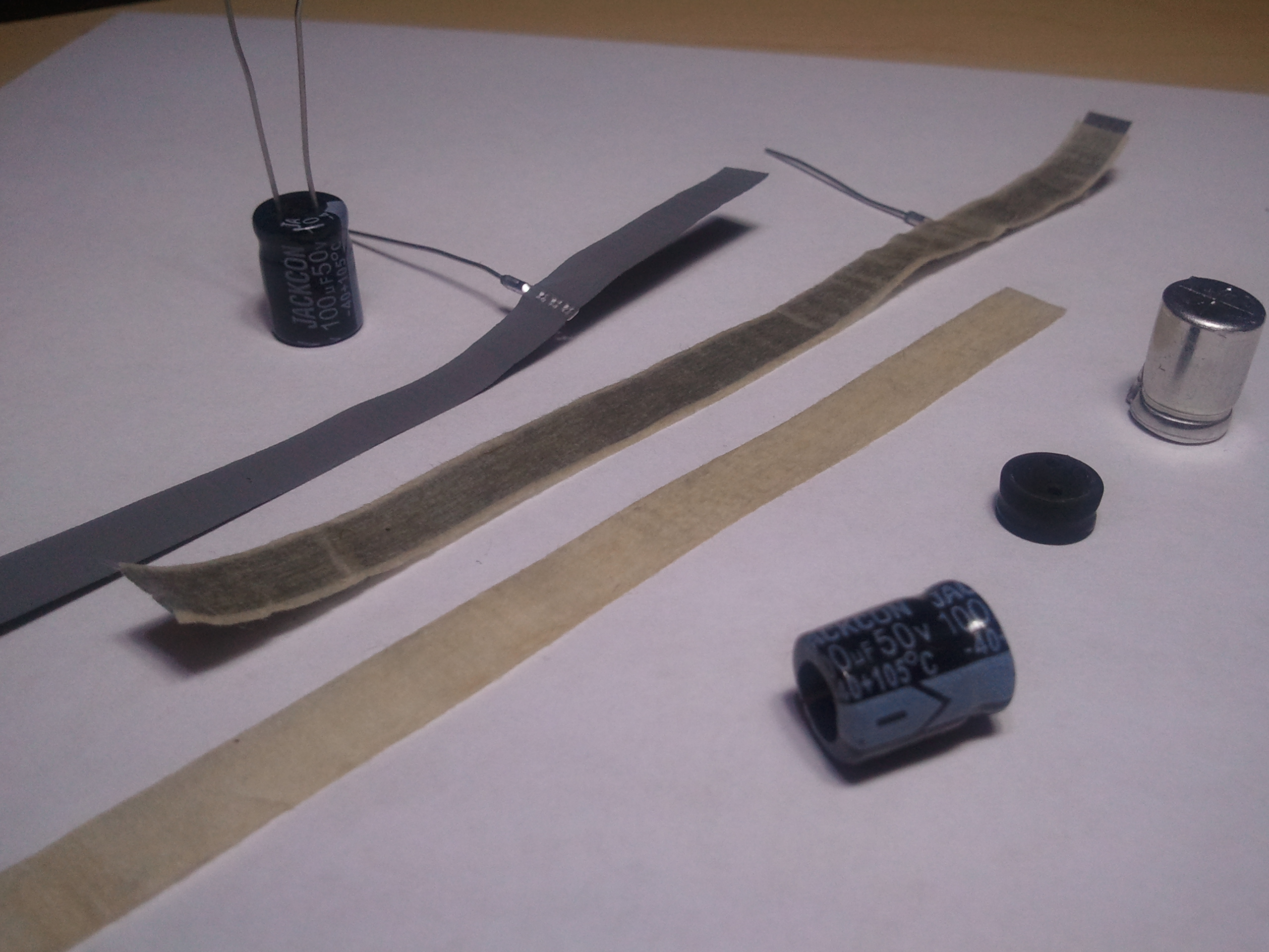 A disassembled 100uF electrolytic capacitor